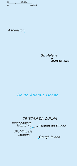 Map showing Saint Helena, Ascension and Tristan da Cunha